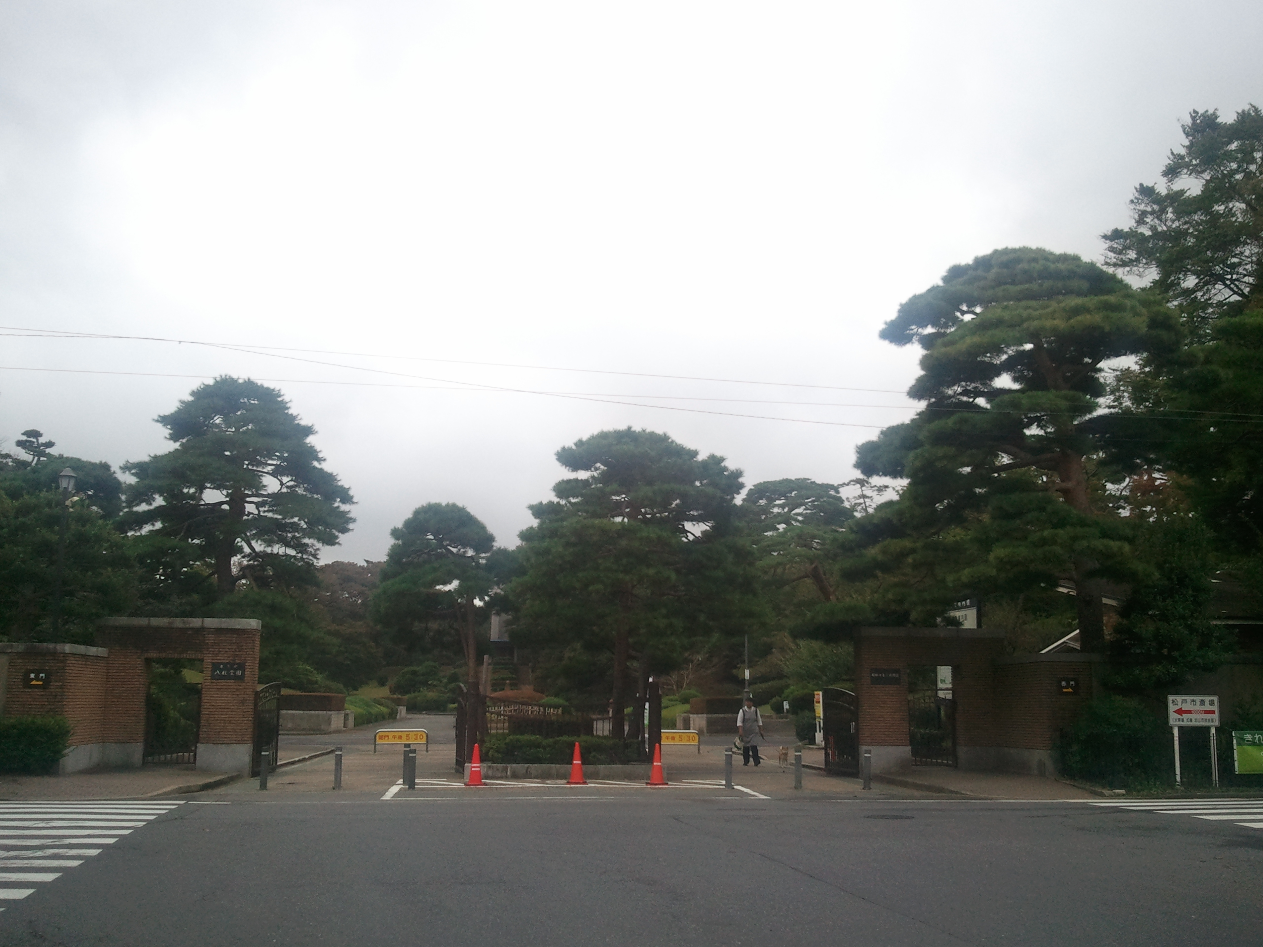 Yahashira Cemetery Entrance